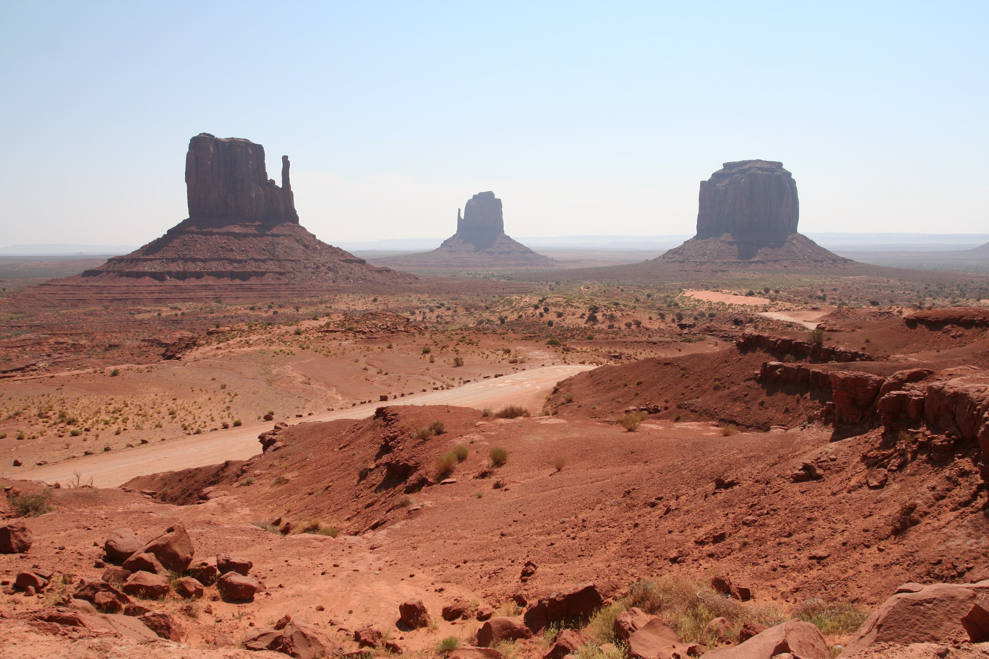 A photograph taken of Monument Valley, Navajo Nation. The 3 buttes are: Merrick Butte right (south), and West and East Mitten Buttes, (distance between, 1.5 miles (2 km)). The Arizona-Utah border is at photo left. The (vertical)-De Chelly Sandstone, upon 'skirts' of Organ Rock Formation.